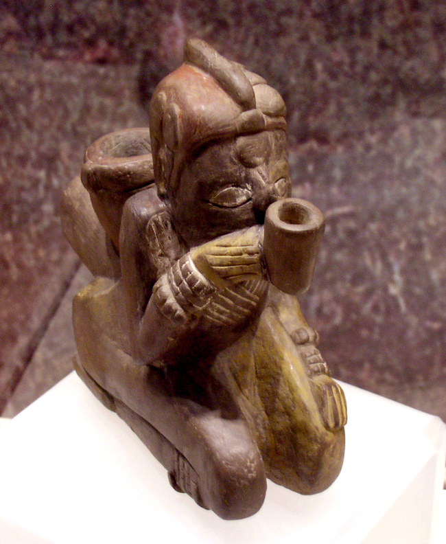 A Missouri flint clay effigy pipe found at the Spiro Mounds site.